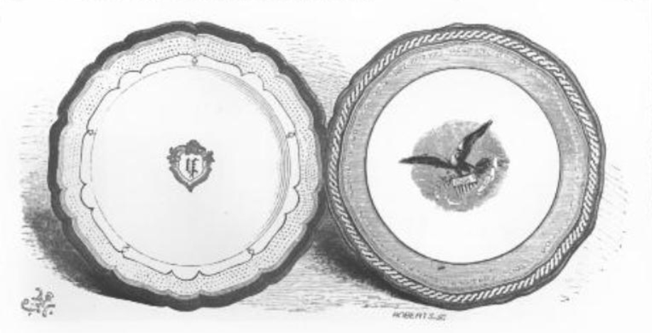 Woodcut engraving showing two porcelain plates created as samples for the administration of President Franklin Pierce. These plates, crafted from blank porcelain manufactured in France by Haviland, were created by E. V. Haughwout & Co. in 1853 in the hope that President Pierce would purchase china from the company. Although Pierce did not do so, Mary Todd Lincoln was the "demonstration plates" in 1861 and chose a revised version of the right-hand plate for the Lincoln White House's "Solferino" china service.